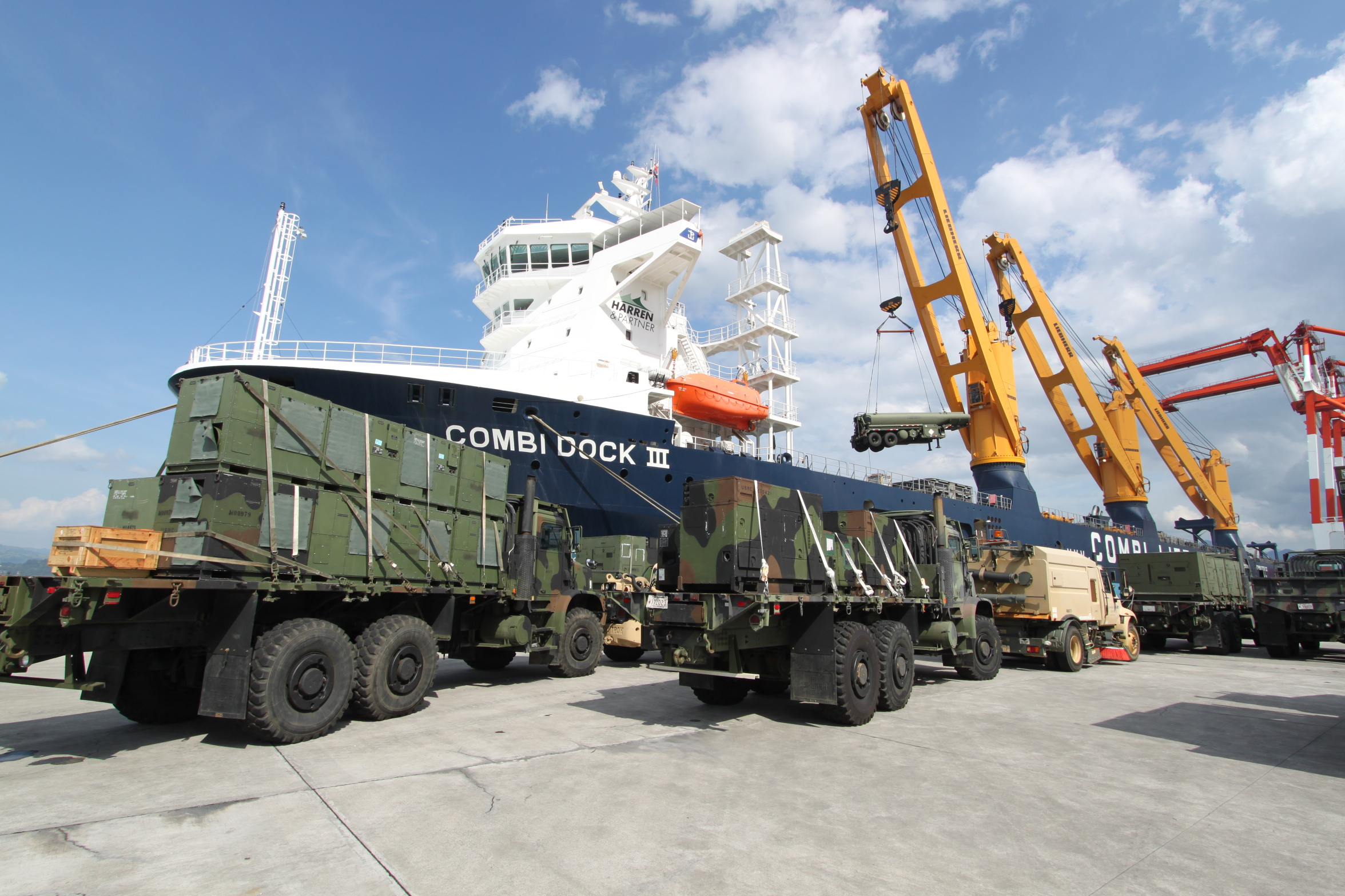 SUBIC BAY, Philippines (Oct. 28, 2010) A U.S. Marine Corps fuel tanker is hoisted aboard the motor vessel MV Combi-Dock III while other Marine Corps cargo is staged on the pier to be loaded aboard the Military Sealift Command-chartered cargo ship. (U.S. Navy photo by Ed Baxter/Released)